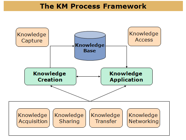 Knowledge Management Framework